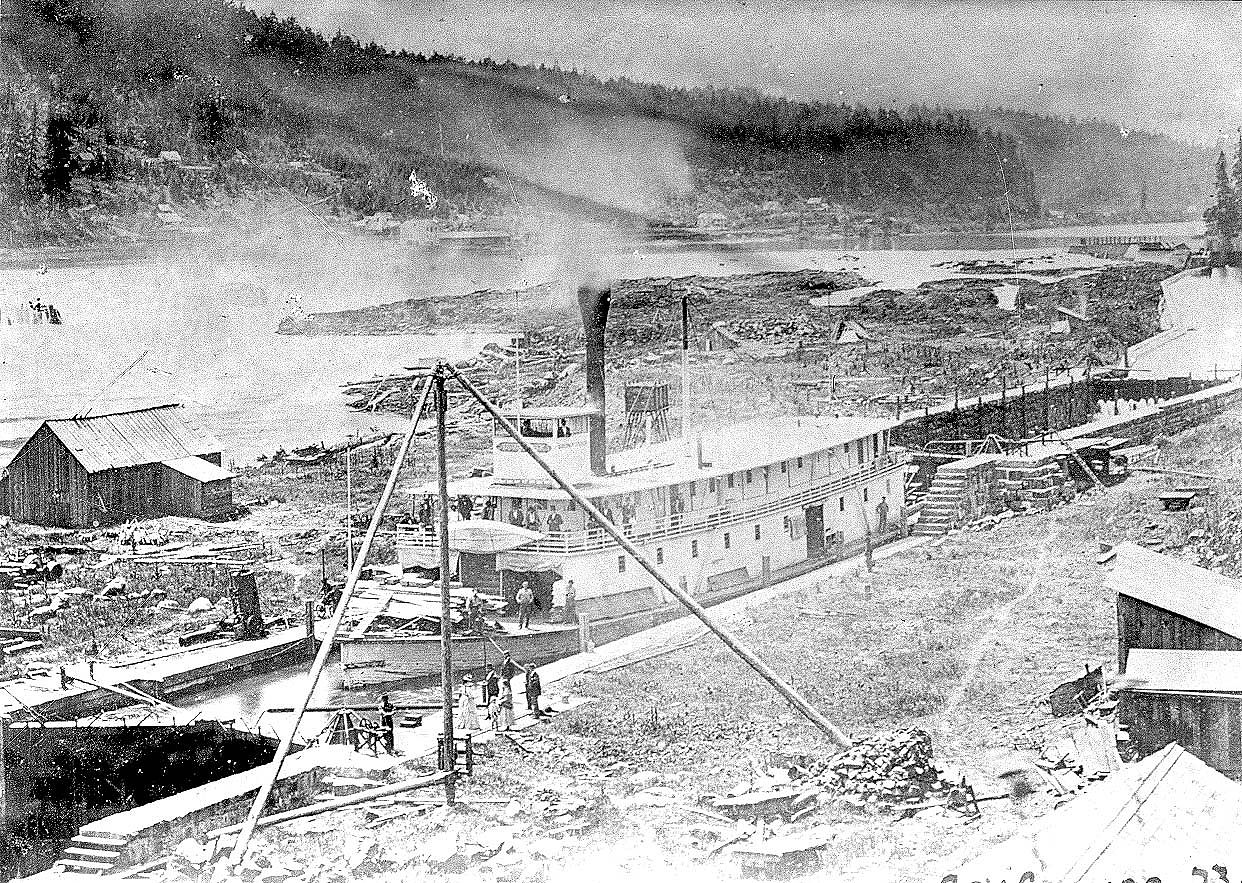 Steamer Governor Grover in locks at Willamette Falls, March 21, 1873